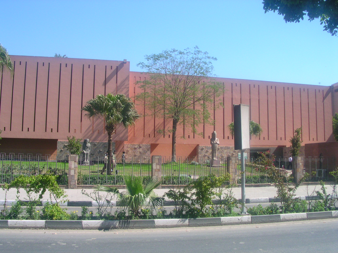 Taken in February 2007, Luxor, Egypt